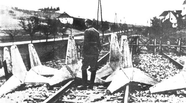 Yugoslav obstacles across railway tracks near Spielfeld Other information This photograph was first published in November 1953 on page 34 of the Department of the Army Pamphlet No. 20-260 Historical Study The German Campaigns in the Balkans (Spring 1941). A note on page ix states that most of the illustrations are U.S. Army photos from captured German films.